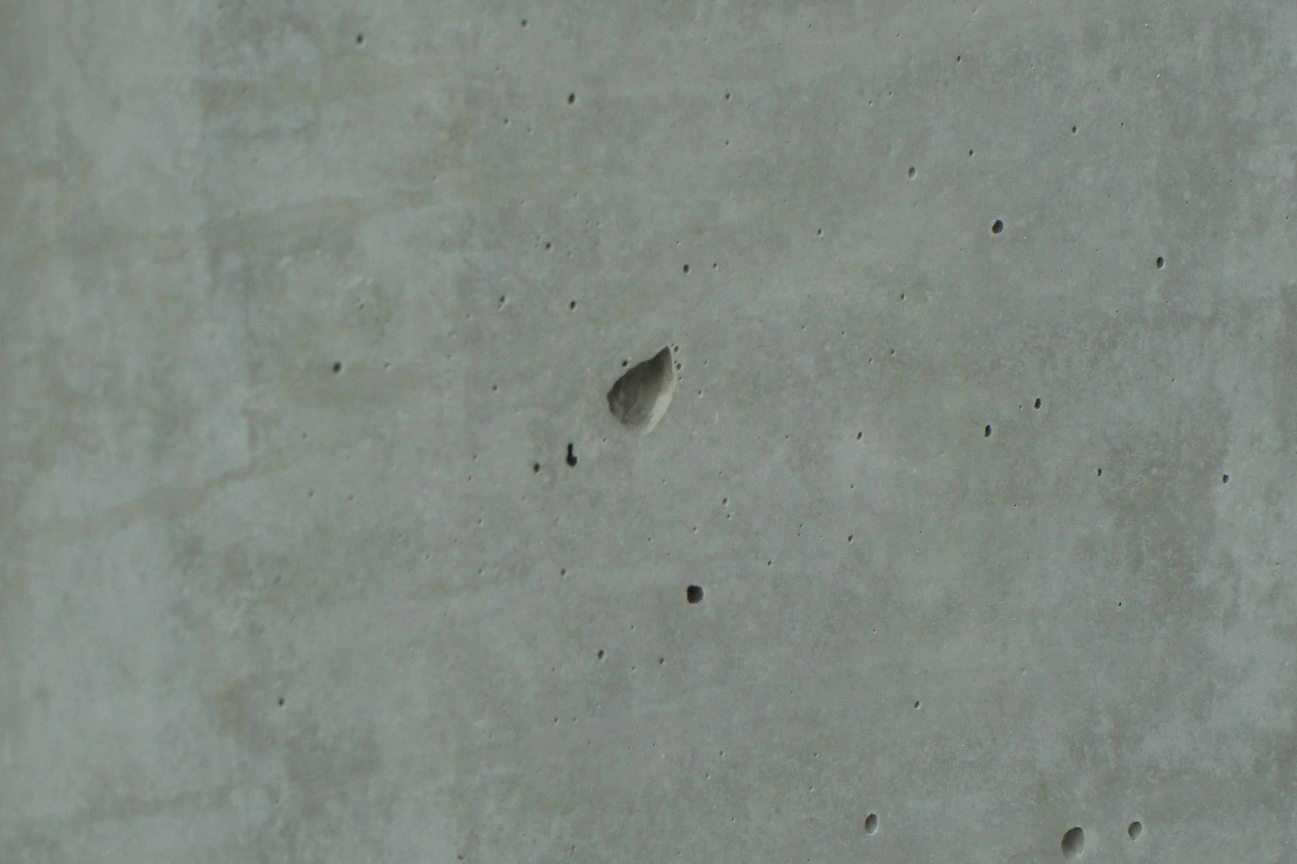 Little potholes (blowholes) on a concrete surface